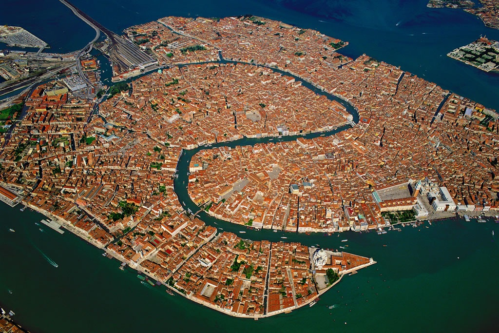 Aerial view of the old town island of Venice and its surrounding lagoons. Canal Grande in the center of the photo. Taken from a balloon.